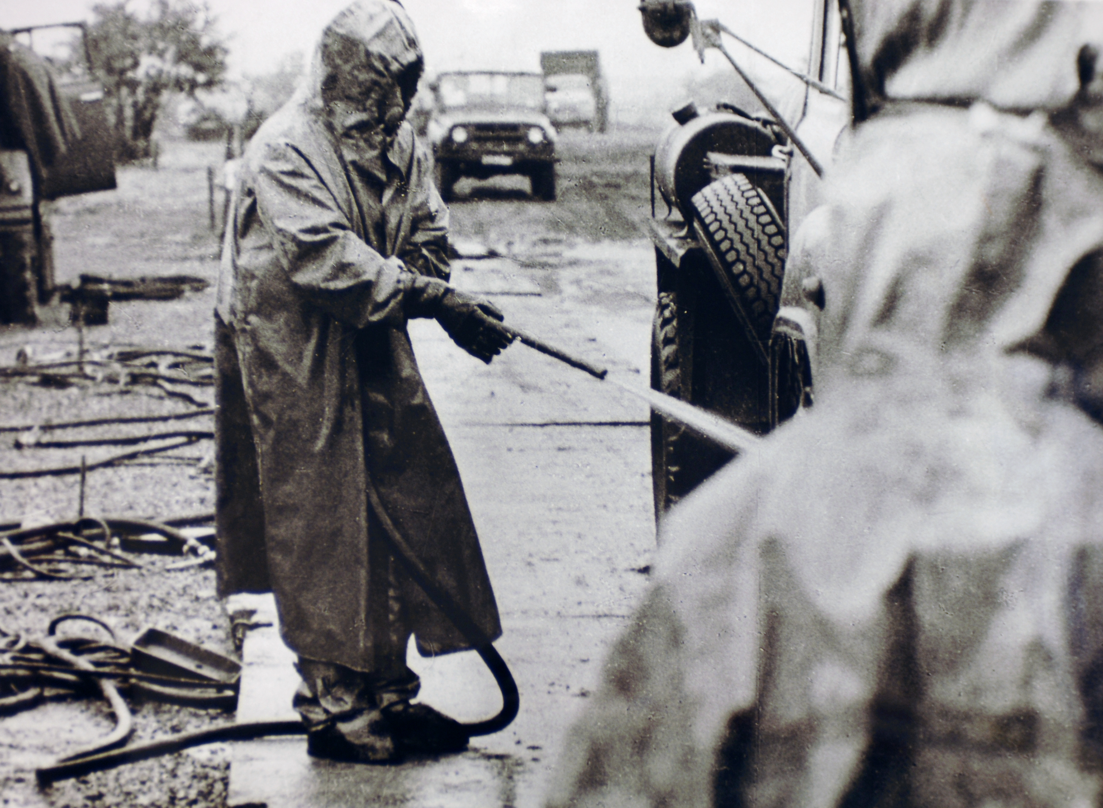 Historical collections of the Chernobyl accident from the Ukrainian Society for Friendship and Cultural Relations with Foreign Countries (USFCRFC). The call up for reservists was announced in military registration and enlistment offices. Reservist during decontamination activities. Copyright: IAEA Imagebank Photo Credit: USFCRFC